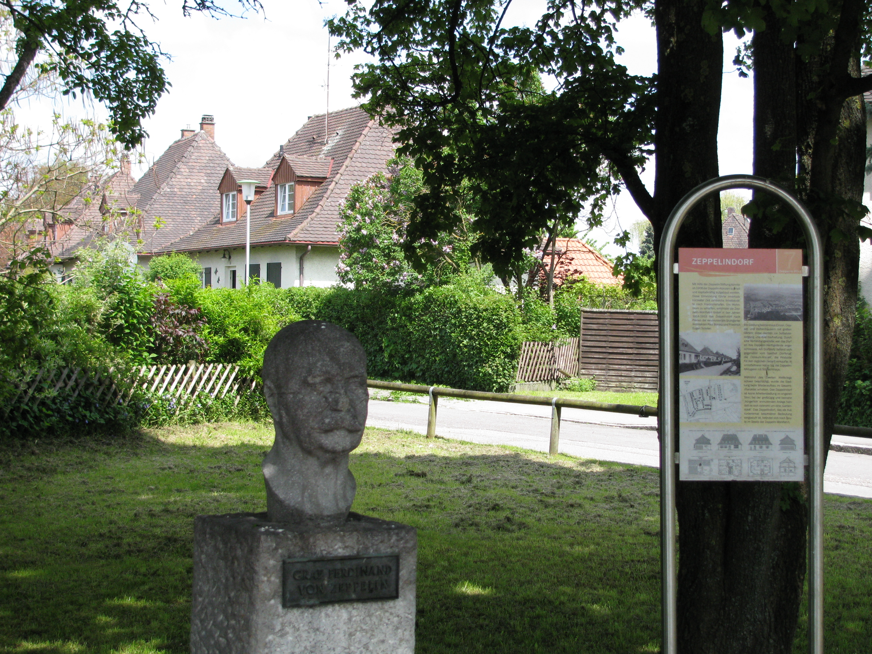 Germany - Baden-Württemberg - Bodenseekreis - Friedrichshafen: Zeppelin-Pfad, Station 7 (Zeppelindorf)